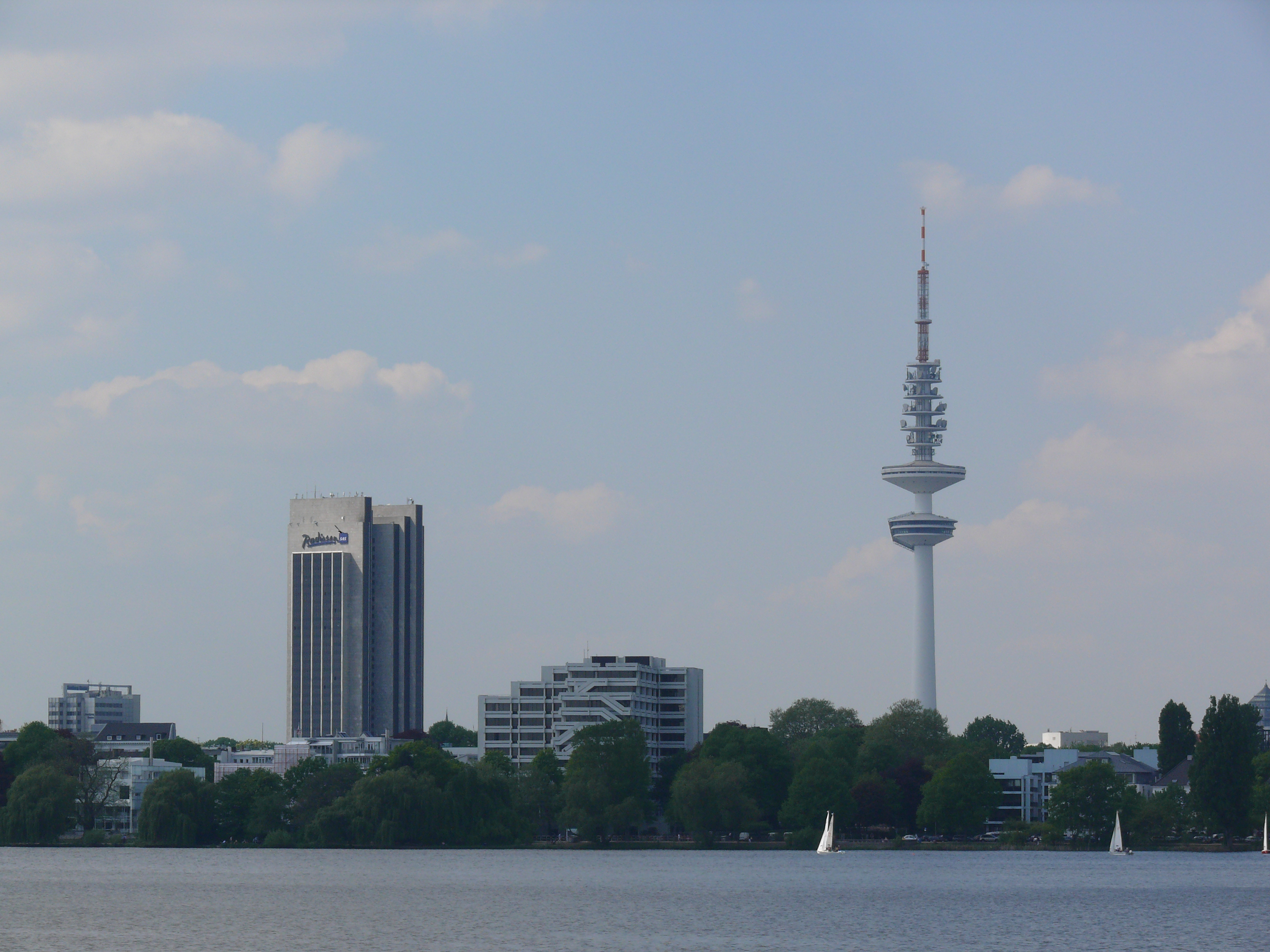 Hamburg, Heinrich Hertz Tower and Radisson SAS Hotel